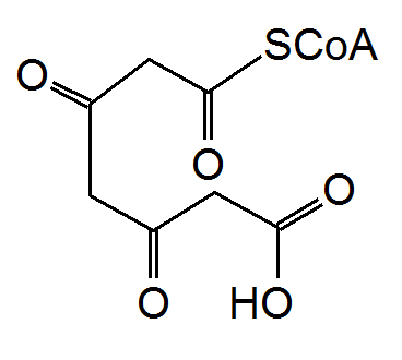 Chemical structure of activated 3,5-diketoheptanedioate